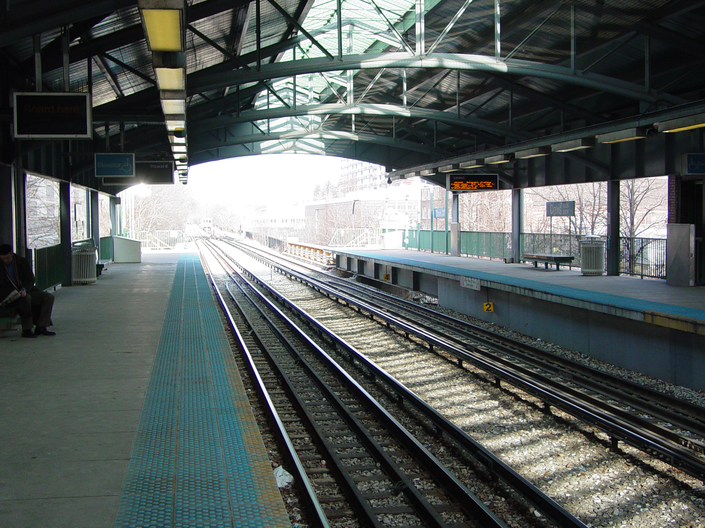 Davis station on the Purple Line in Chicago